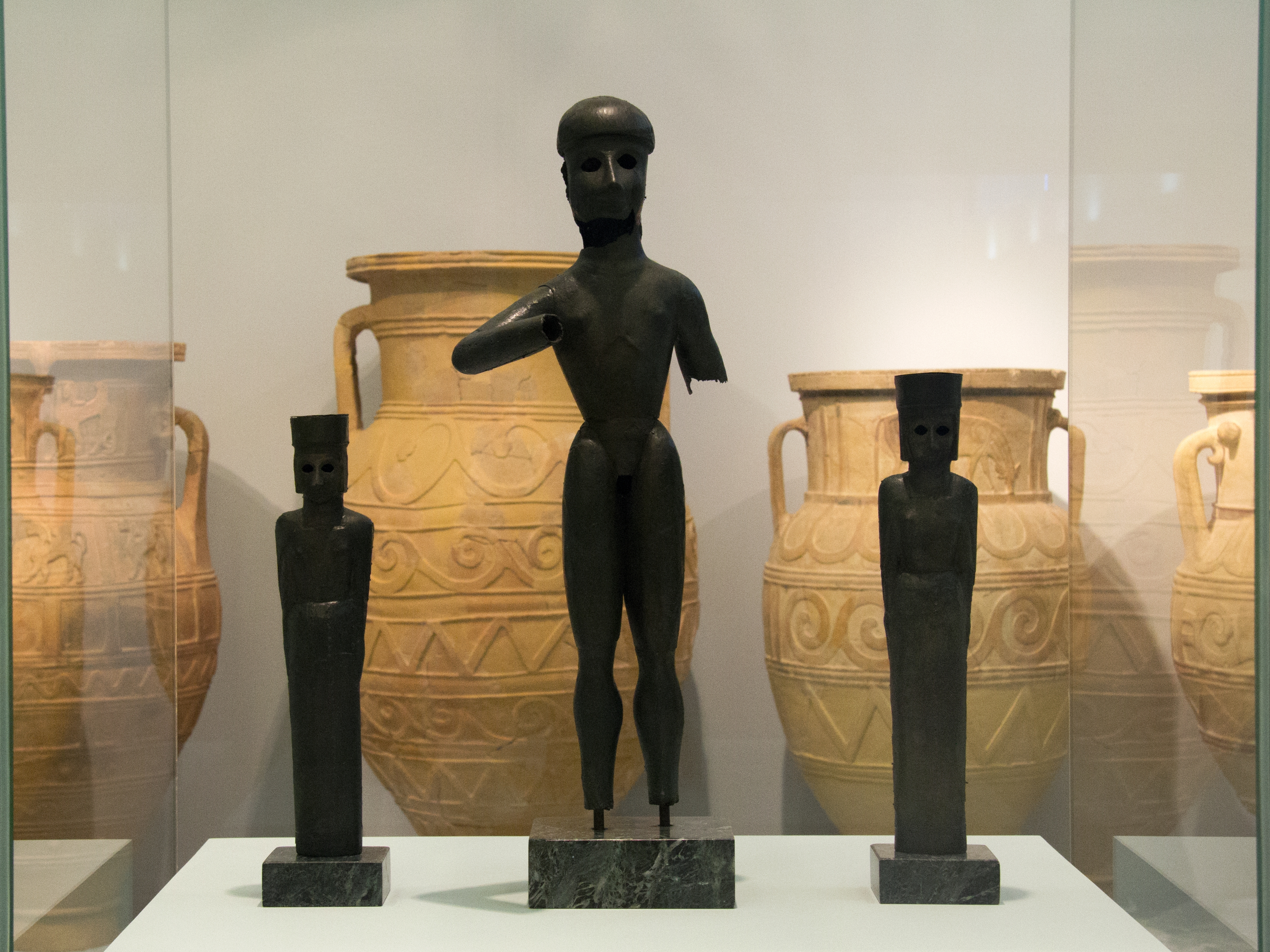 The "Apollonian Triad". Three small statues from the temple of Apollo at Dreros (eastern Crete): Apollo, Artemis, Leto. They are the earliest known Greek hammered bronze statues. Ca 750 BC. Archaeological Museum of Heraklion, No. 245-247.